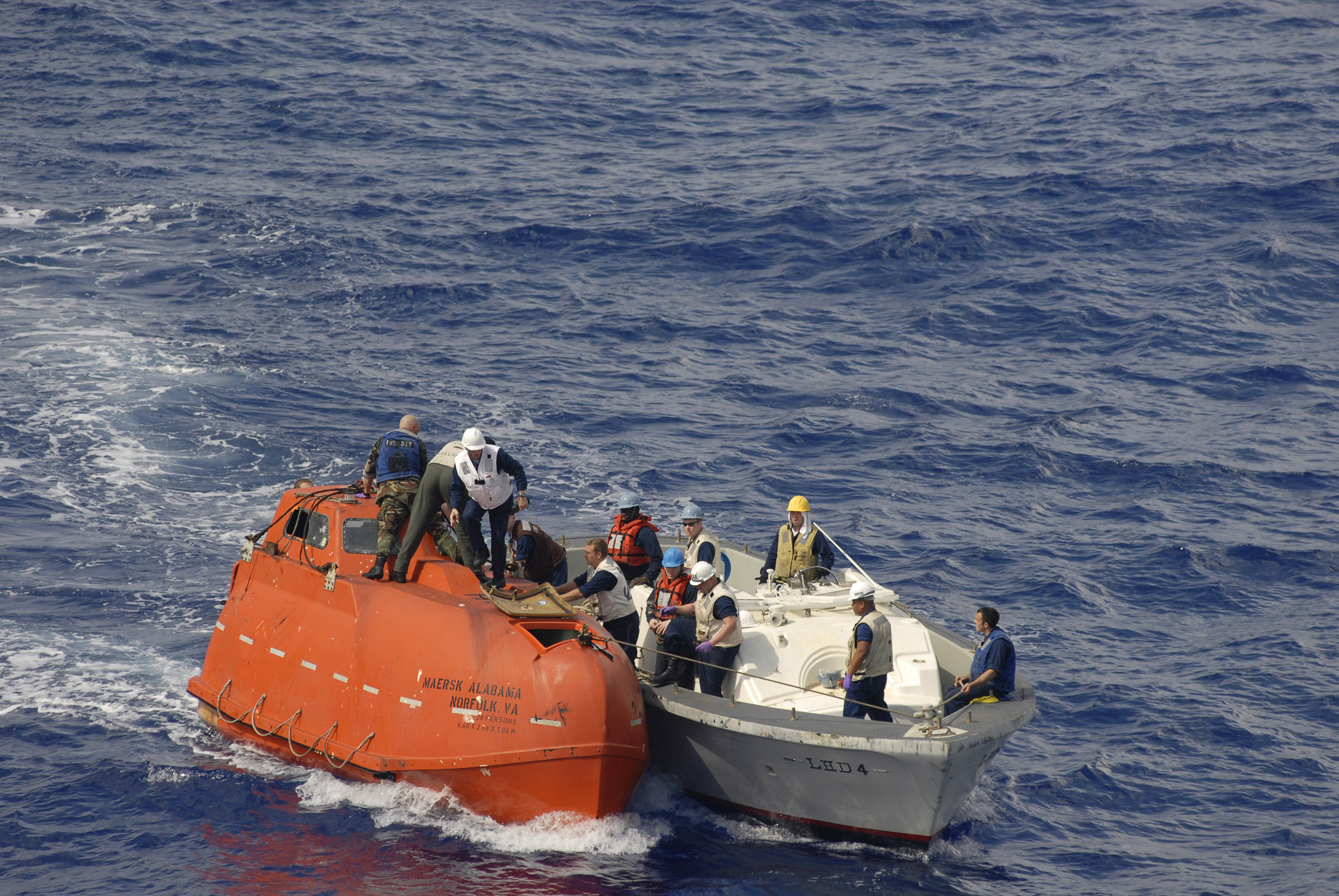 A team from the USS Boxer (LHD 4) tows one of the Maersk Alabama lifeboats to the Boxer to be processed for evidence in the Indian Ocean on April 13, 2009. Capt. Richard Phillips was held captive in the lifeboat by suspected Somali pirates for five days following a failed hijacking attempt off the Somali coast. The Boxer is deployed as part of Boxer Amphibious Readiness Group along with the 13th Marine Expeditionary Unit supporting Maritime Security Operations in the Navyâ€™s 5th fleet area of operations.